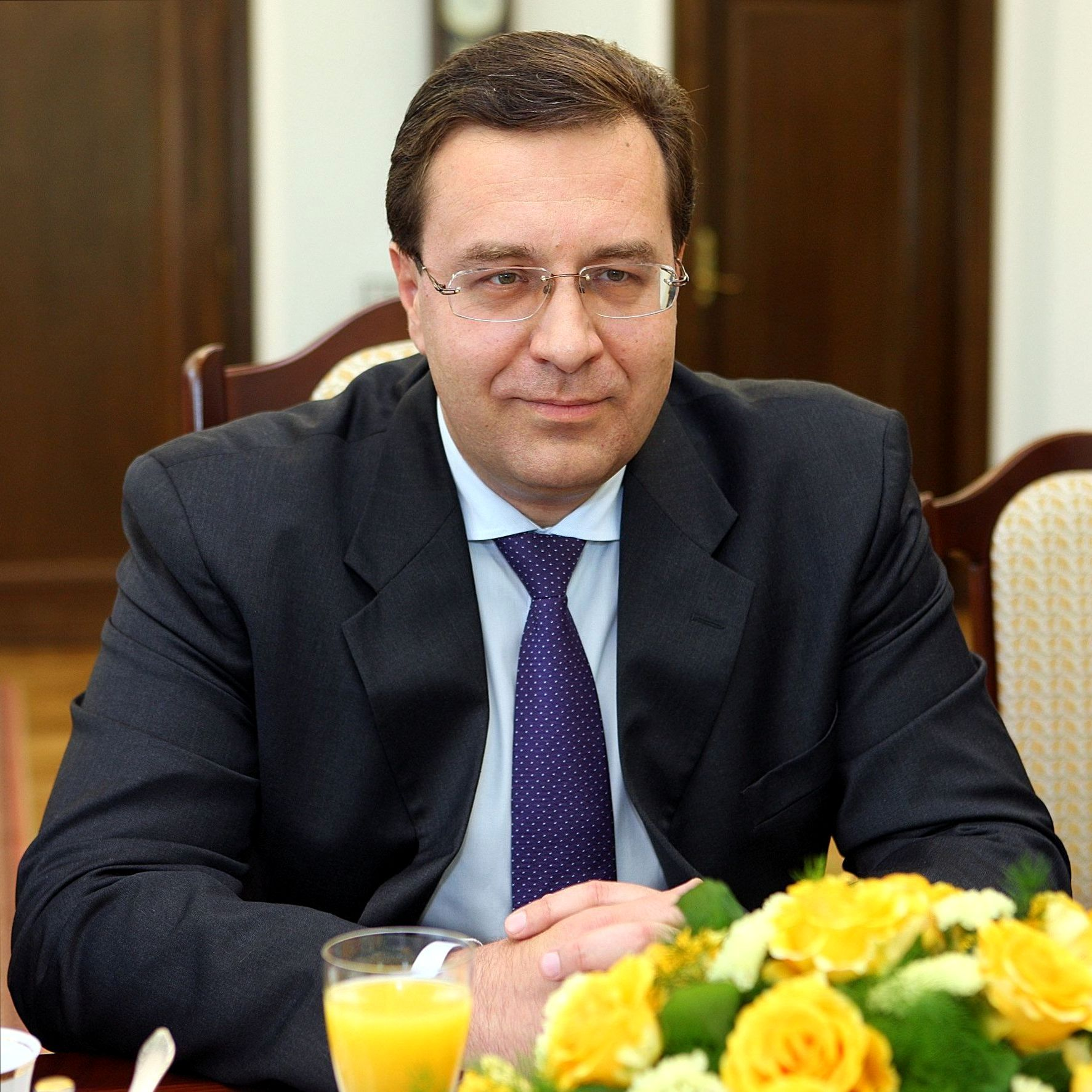 President of the Parliament and Acting President of Moldova Marian Lupu in the Polish Senate